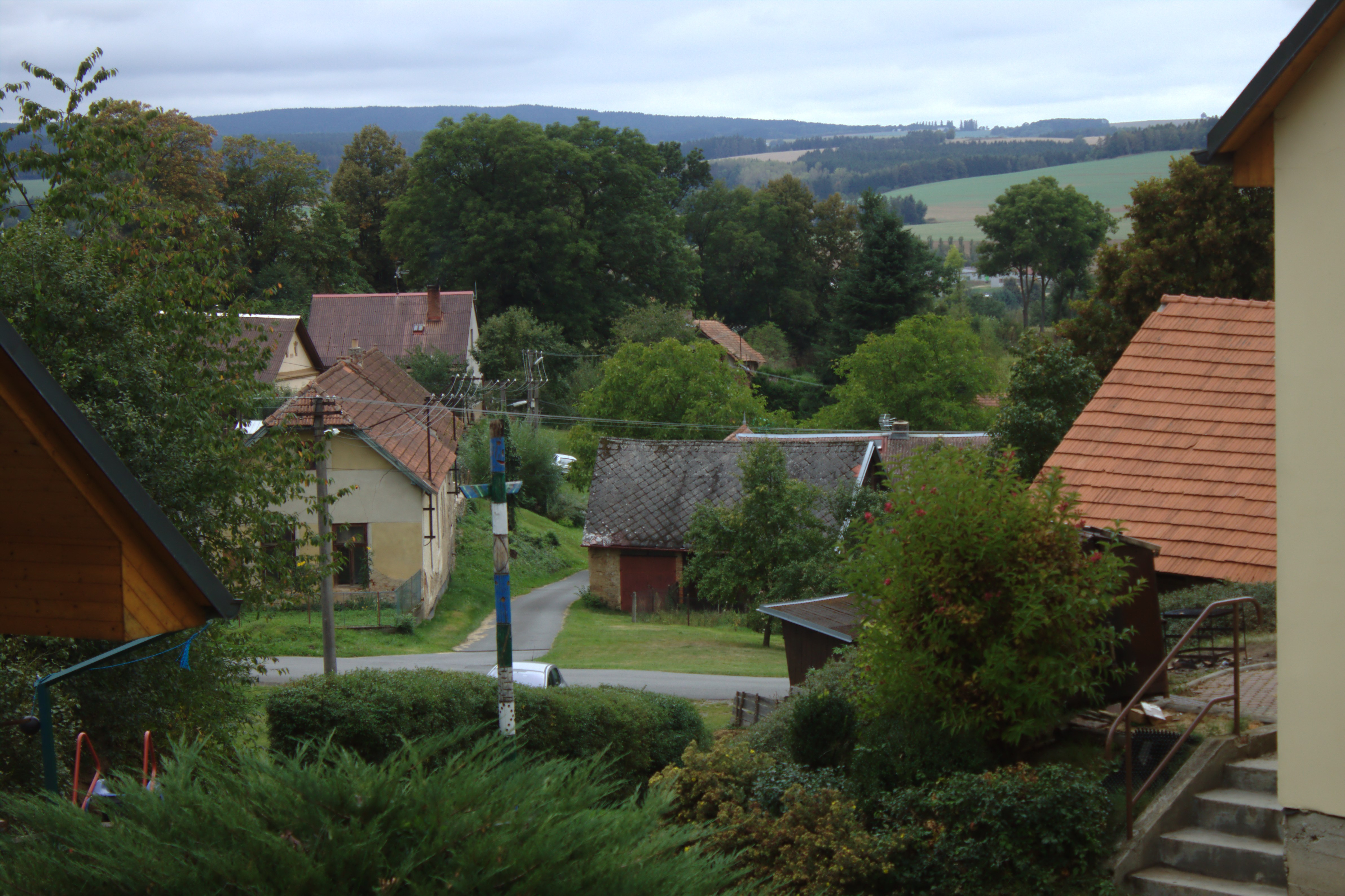 Buildings in the village of Rovná, Vysočina Region, CZ